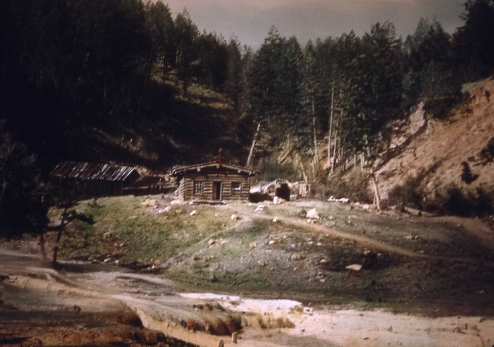 McCartney's Hotel, Clematis Gulch (near Mammoth Hot Springs), Yellowstone National Park